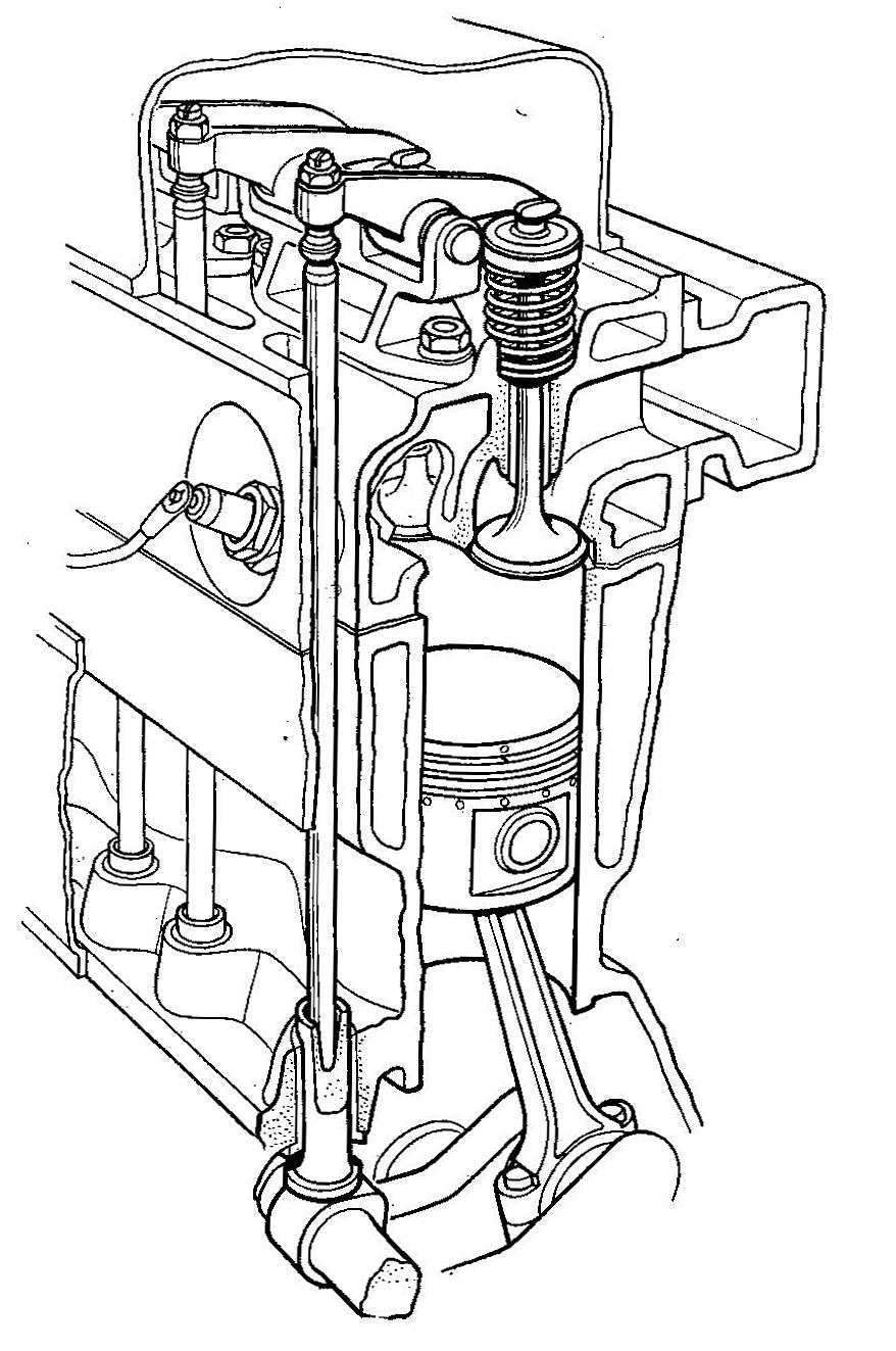 OHV engine, section (Autocar Handbook, 13th ed, 1935).jpg